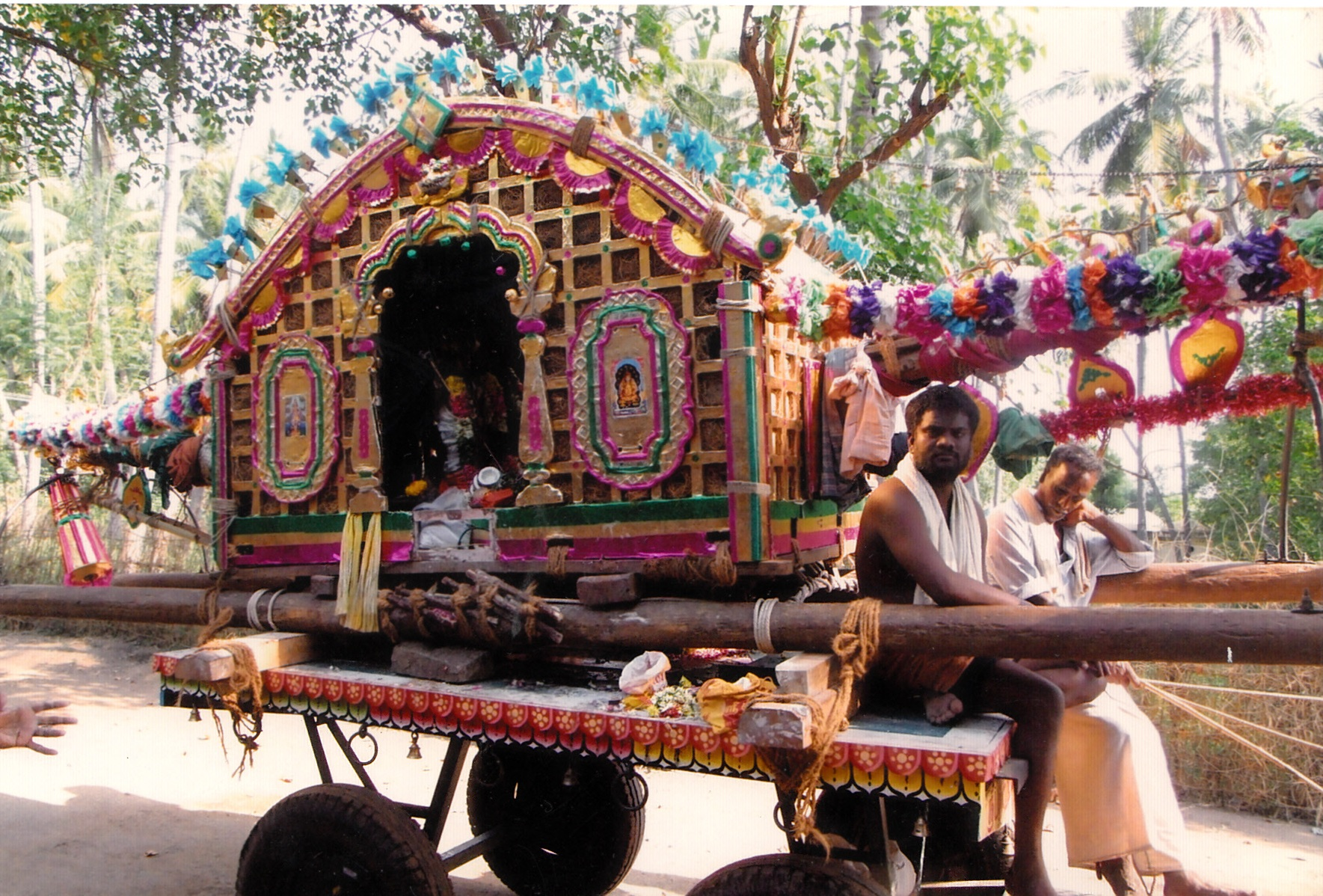 திருமழபாடி பல்லக்கு, திருவையாறு சப்தஸ்தான விழா, ஏப்ரல் 2008